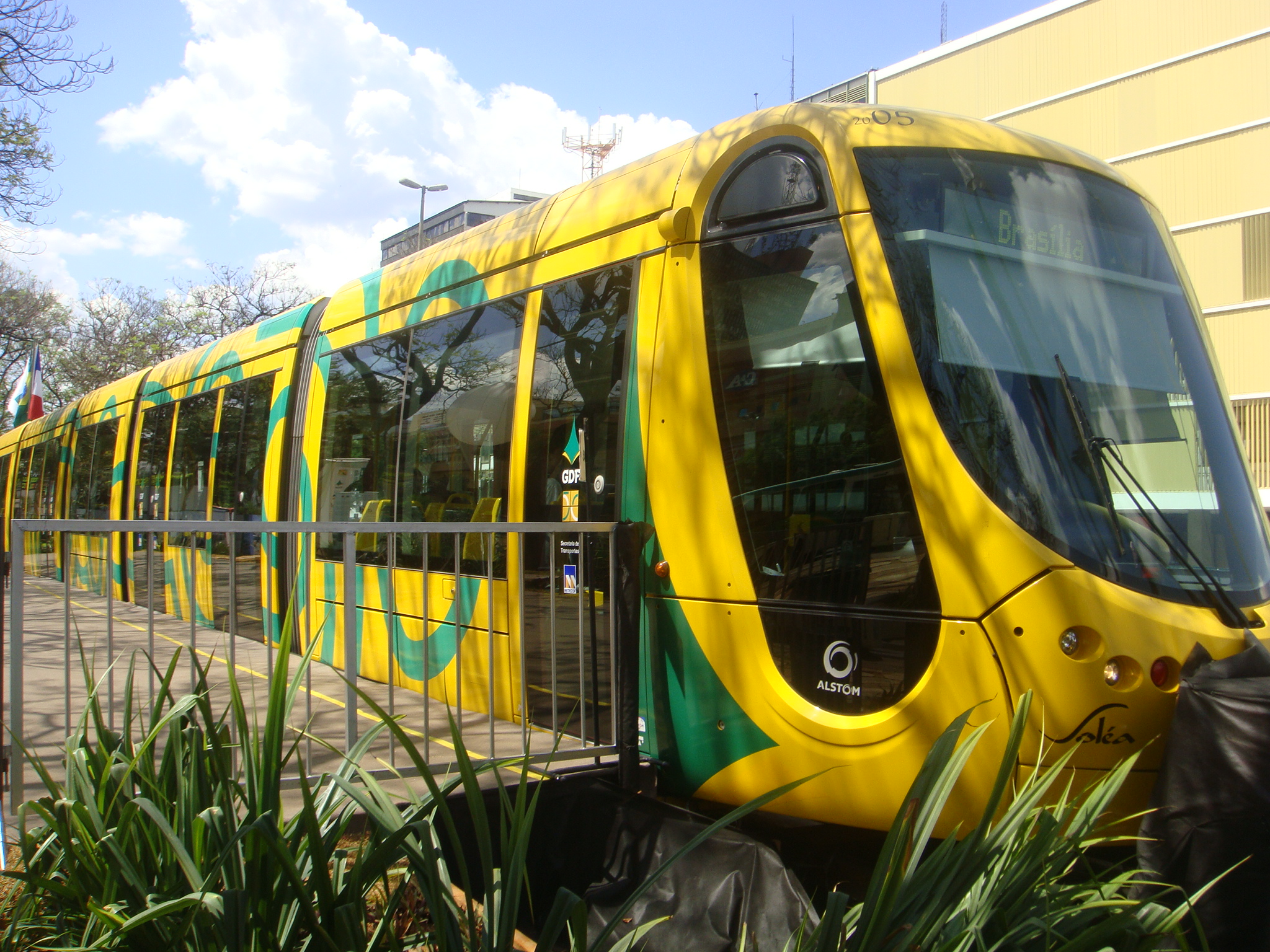 Tram (LRT) in exhibition in Brasilia, D.F., Brazil. The system will be implemented soon in the W3 Avenue, and it is called "Metrô-leve (VLT) de Brasília". The tram was made by French manufacturer Alstom. It was originally car 05 of the Mulhouse, France, tram system (number still showing on front, near roof), one of two cars previously loaned by Mulhouse in 2007–08 to Buenos Aires for the Tranvía del Este line.